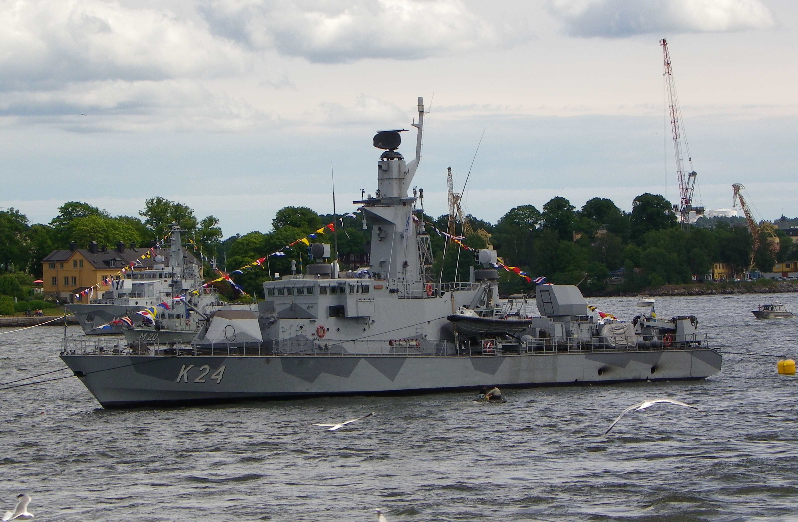 HMS Sundsvall in Stockholm 2010 during the wedding of Victoria, Crown Princess of Sweden, and Daniel Westling.